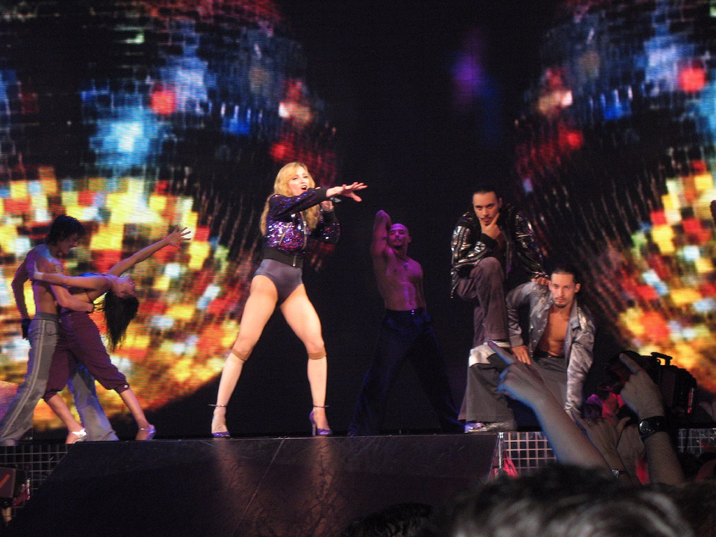 Hung Up on Confessions Tour